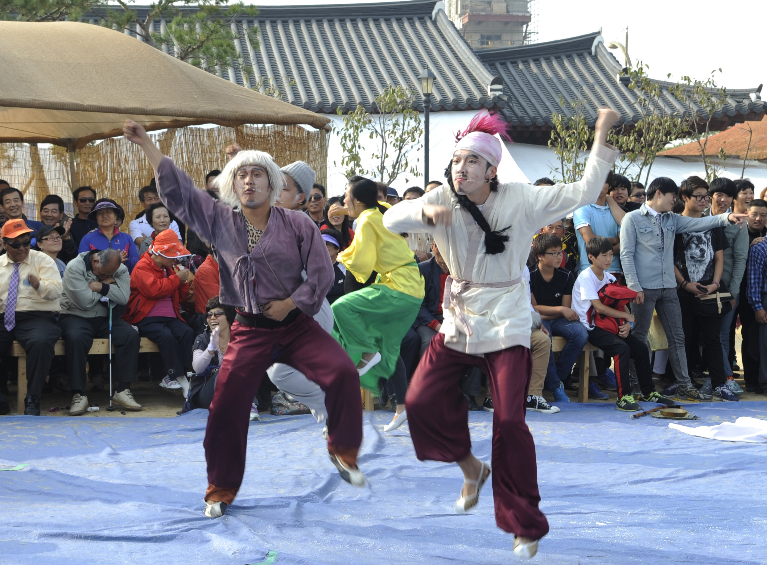 10/16/2012 - KUNSAN AIR BASE, Republic of Korea -- About 60 Kunsan Airmen took the chance Oct. 14 to visit a local temple before heading to the Gimje Horizon Festival. Both of these South Korean spots gave Americans the chance to learn more about their host country's culture up close. (8th Fighter Wing Public Affairs)